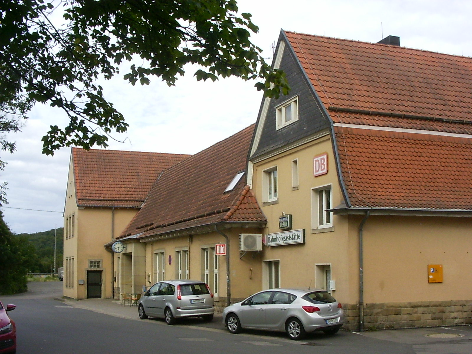 Türkismühle train station, streetside